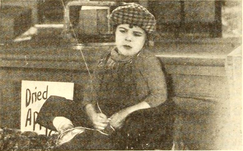 Still from the American film Peck's Bad Boy (1921) with Jackie Coogan, on page 58 of the July 1921 Photoplay magazine.